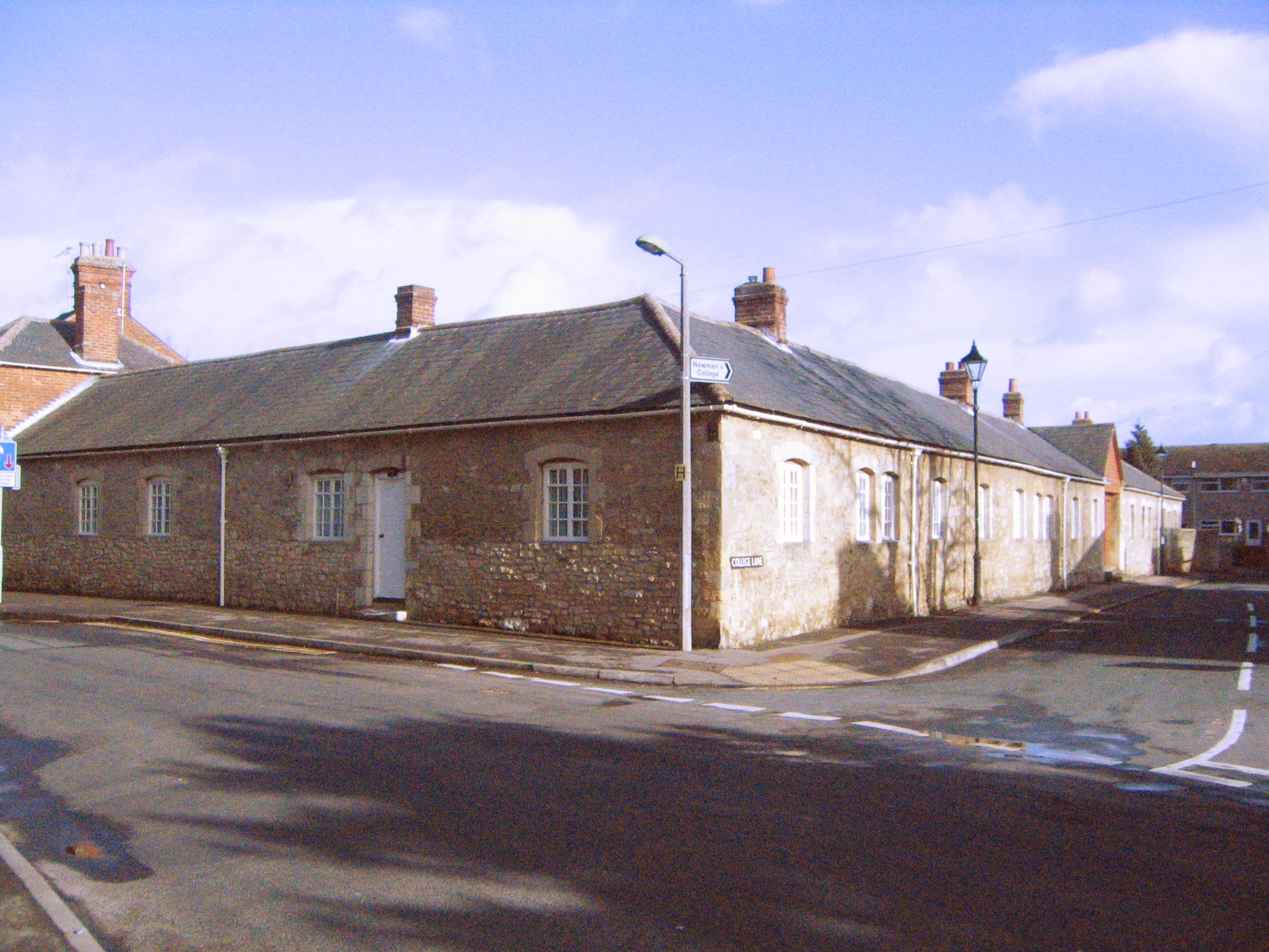 The College, Littlemore, Oxfordshire